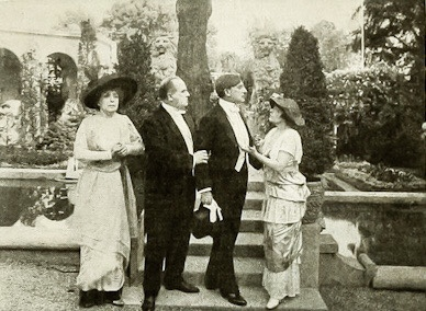 Scene of lawn party in 1915 film "The Ringtailed Rhinoceros" with actors in formal attire (left to right) Ida Waterman, Herbert Fortier, Raymond Hitchcock, and Flora Zabelle, image published in trade journal Motography, August 28, 1915, p. 421. This image was shot on location by Lubin on Long Island in New York, filming at "Bellemond", Raymond Hitchcock's estate there.